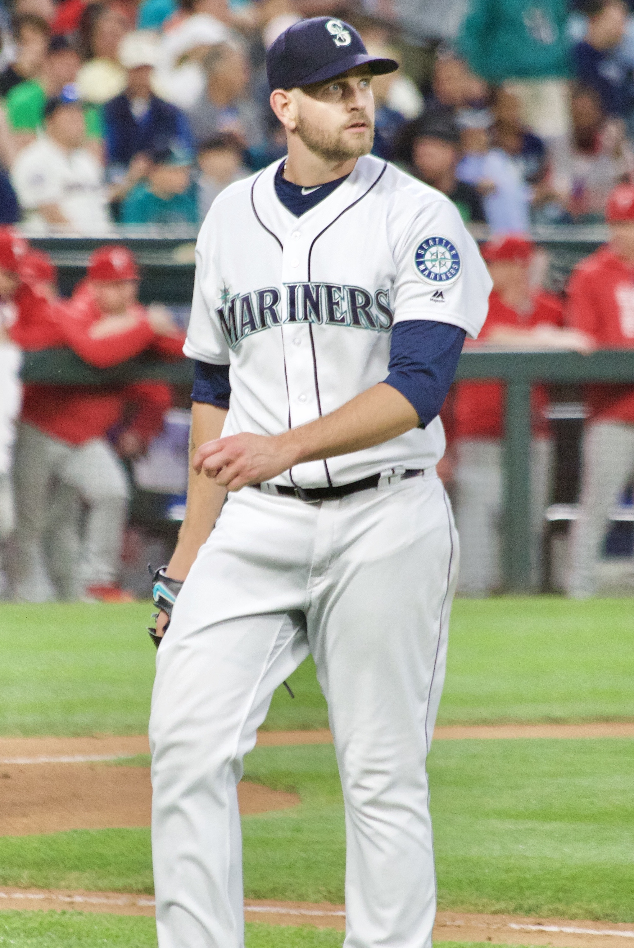 James paxton with the Seattle mariners in 2017